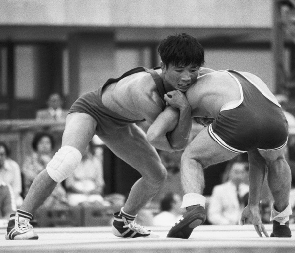 “Jang Se-Hong vs. Sergei Kornilayev”. The 22nd Summer Olympics. A bout between wrestlers Jang Se-Hong (DPRK), left, silver winner at the 1980 Olympics, and Sergei Kornilayev (USSR), right, bronze winner. Men's Freestyle 48kg competition.